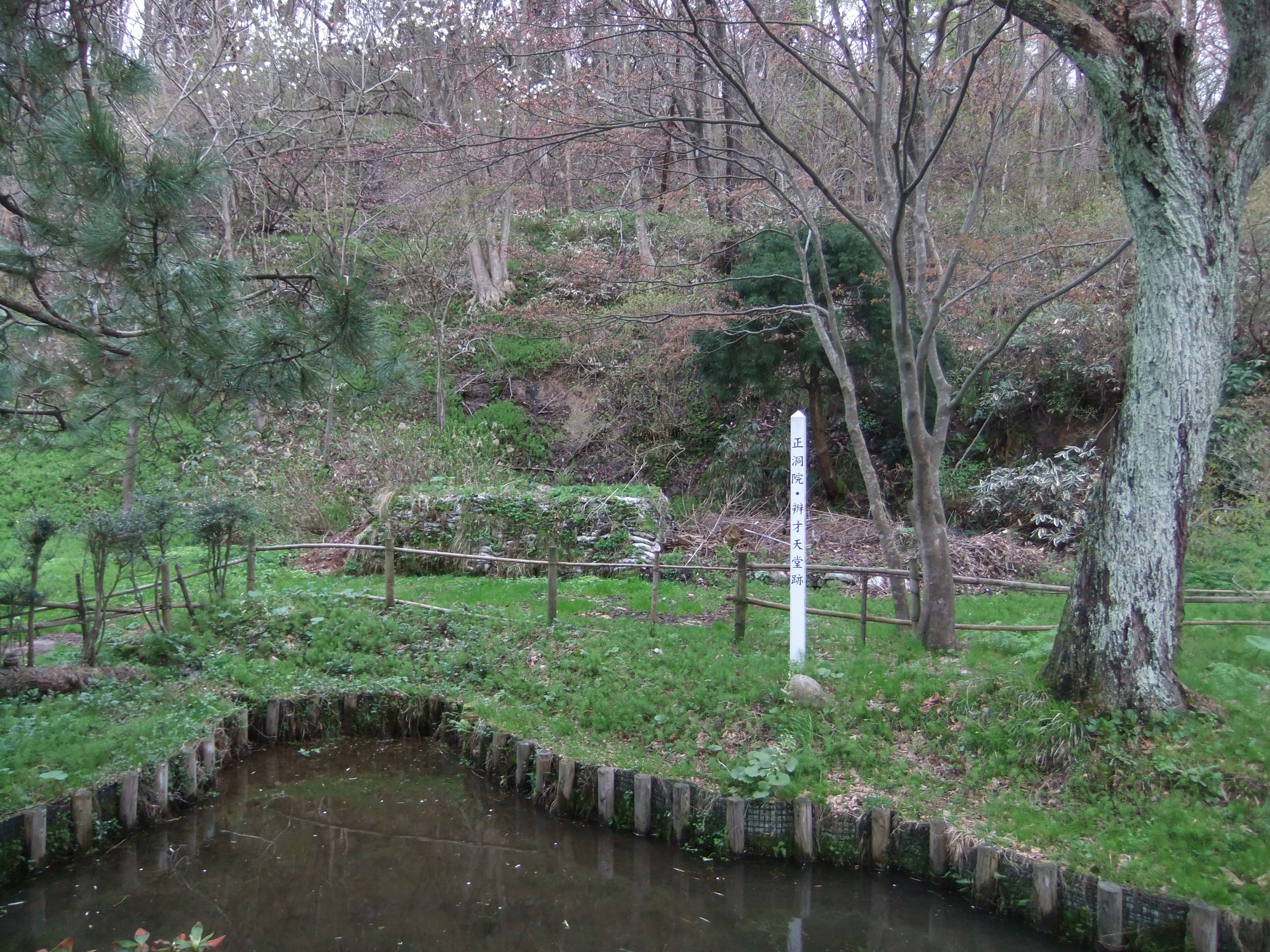 The site of Sarasvati hall in the temple Syoutouin (legal wife of Satake Yosinobu, the first Kubota feudal lord).